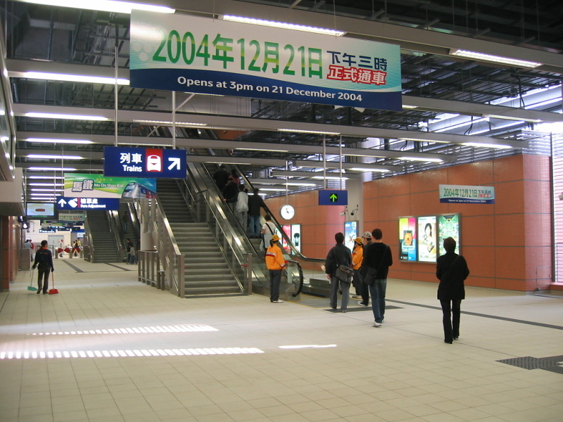 HK KCR MOS Railway Sha Tin Wai Station